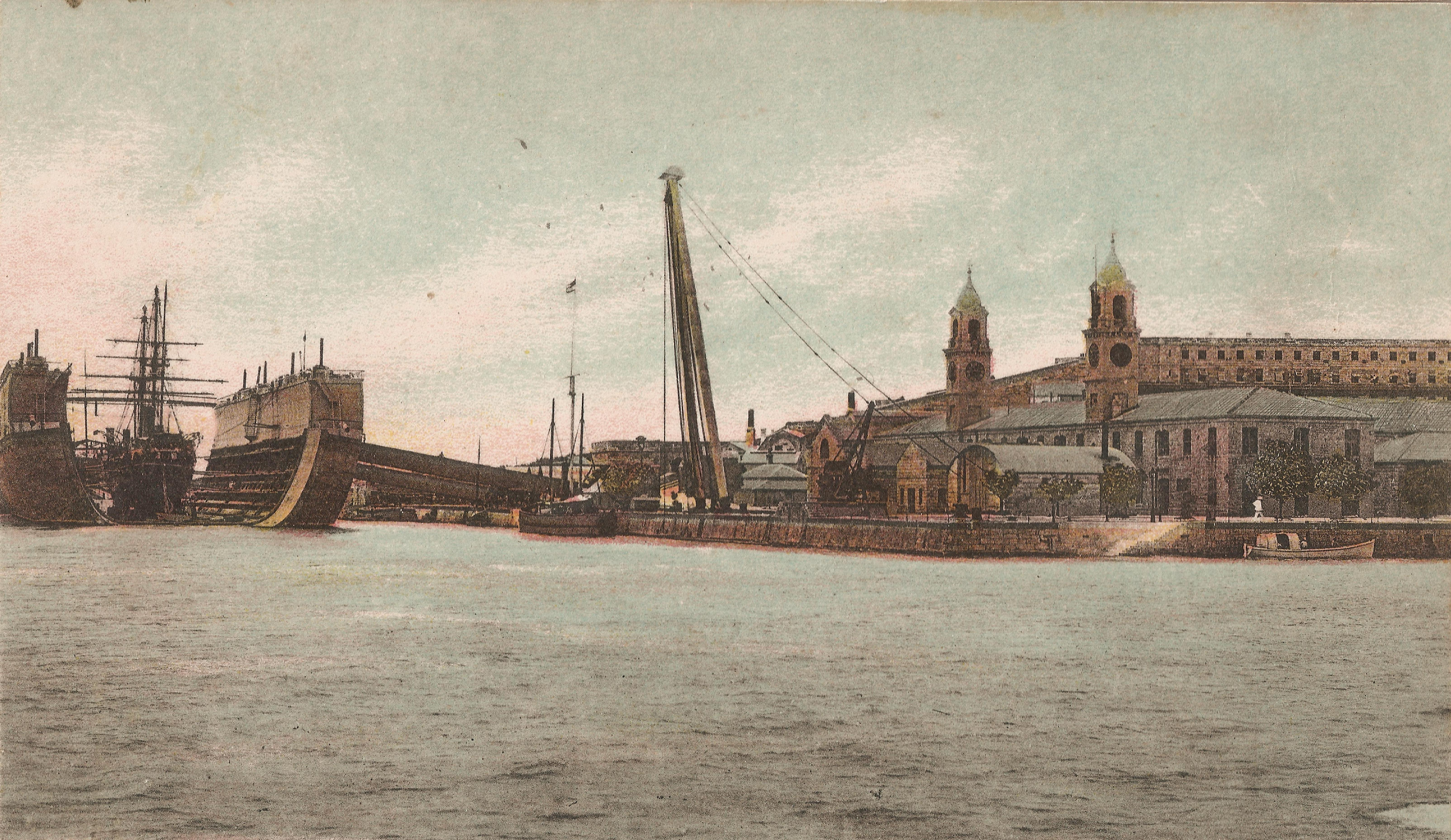 The Royal Navy floating drydock Bermuda at the Royal Naval Dockyard on Ireland Island, Bermuda.